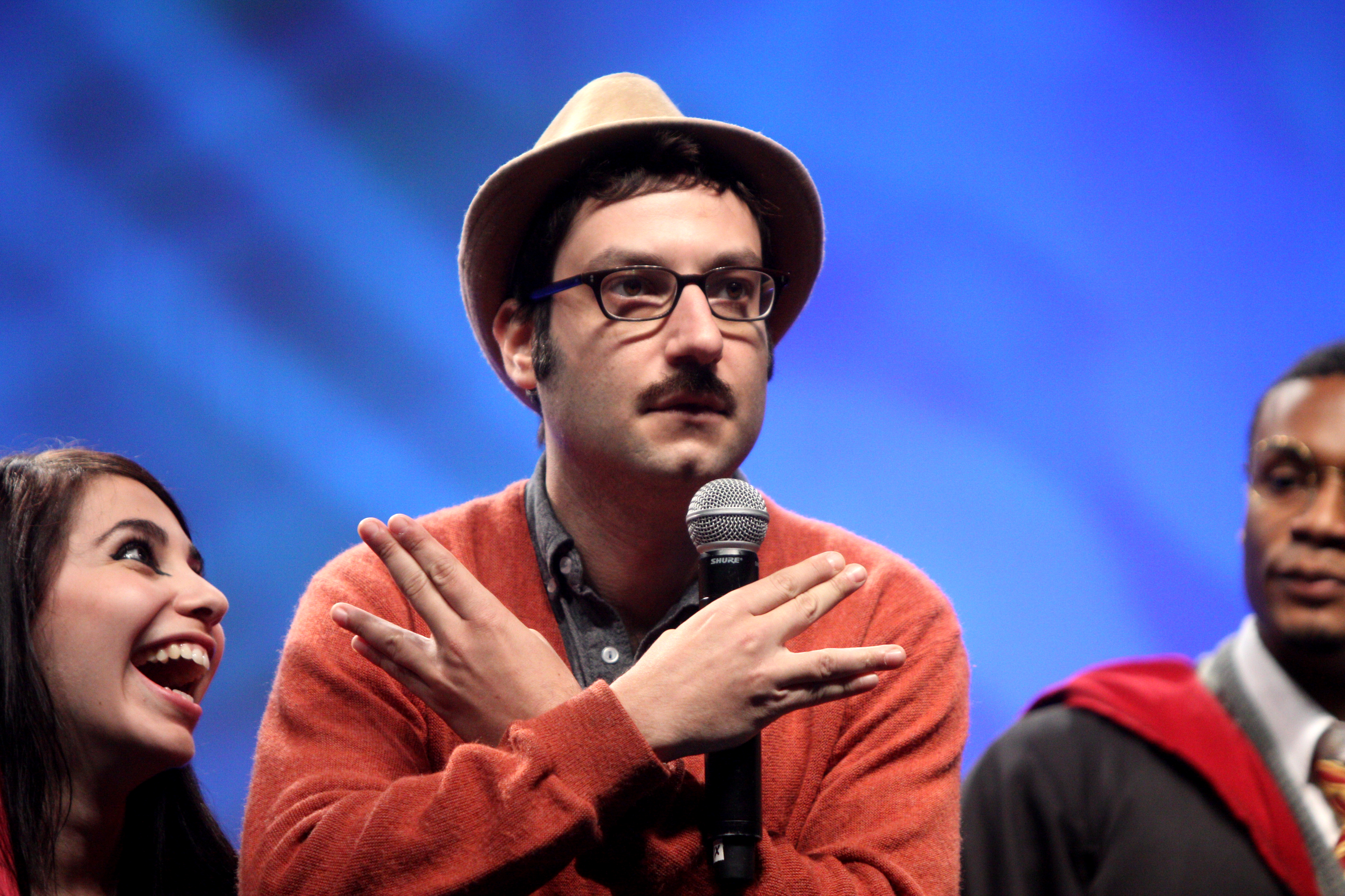 Indie of MyMusic speaking at VidCon 2012 at the Anaheim Convention Center in Anaheim, California.